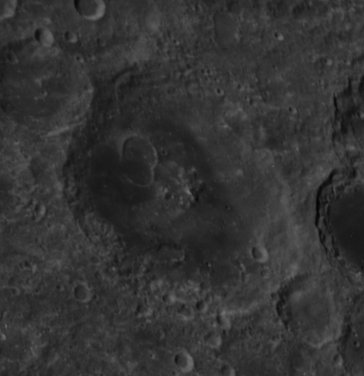 Oblique view of Joliot, on the far side of the moon. North is at top.